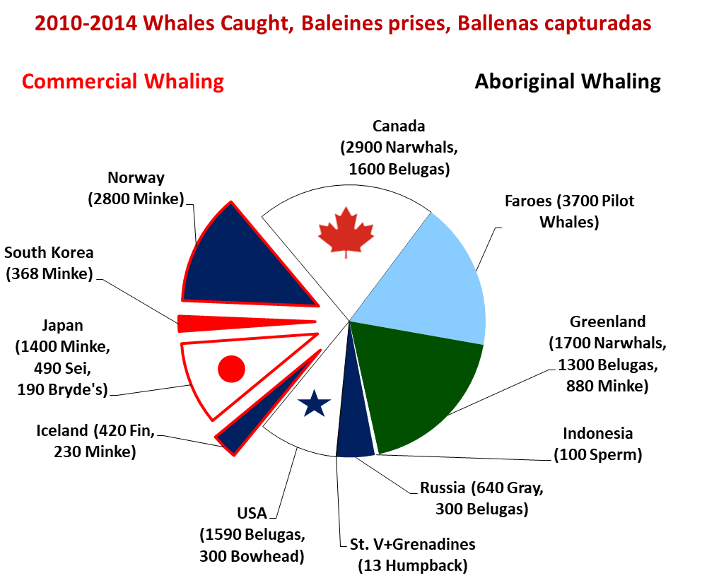 Whales caught 2010-2014, by country, showing species caught most often by each country Sources: IWC Summary "Catch Database" version 6.1, July 2016,[1] which includes great whales, orcas, bottlenose whales, pilot whales, and Baird's Beaked Whales. This database is fairly complete back to 1900, and has some pre-1900 counts, especially for the US back to 1848, and for Norway back to 1864, and partial data before 1900 for other countries. The IWC database is supplemented by Faroese catches of pilot whales,[2] Greenland's and Canada's catches of Narwhals (data 1954-2014),[3] Belugas from multiple sources shown in the Beluga whale article, Indonesia's catches of sperm whales,[4][5] and bycatch in Korea.[6] Korea is the only country where bycatch changes the graph noticeably.